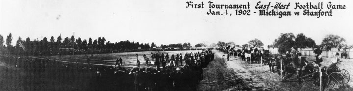 The very first Tournament East-West football game, hosted by the Tournament of Roses. The game would become known as the Rose Bowl Game and like (nearly) all subsequent games it was played on New Years Day: January 1, 1902. The first game featured Fielding H. Yost's dominating 1901 University of Michigan (representing the East) crushing previously 3-1-2 Stanford (representing the West) by a score of 49-0. Michigan would end the season 11-0-0 and considered the National Champions. Yost had been Stanford's coach the previous year. The game was so lopsided that the game wasn't played again until 1916, when it would become a yearly tradition. Courtesy of the Los Angeles Public Library's Photo Collection[1].